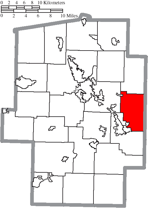 Map of the municipal and township boundaries of Tuscarawas County, Ohio, United States, as of the 2000 census, with the location of Union Township highlighted. Township borders are shown only in unincorporated areas in order to differentiate incorporated and unincorporated areas more clearly.